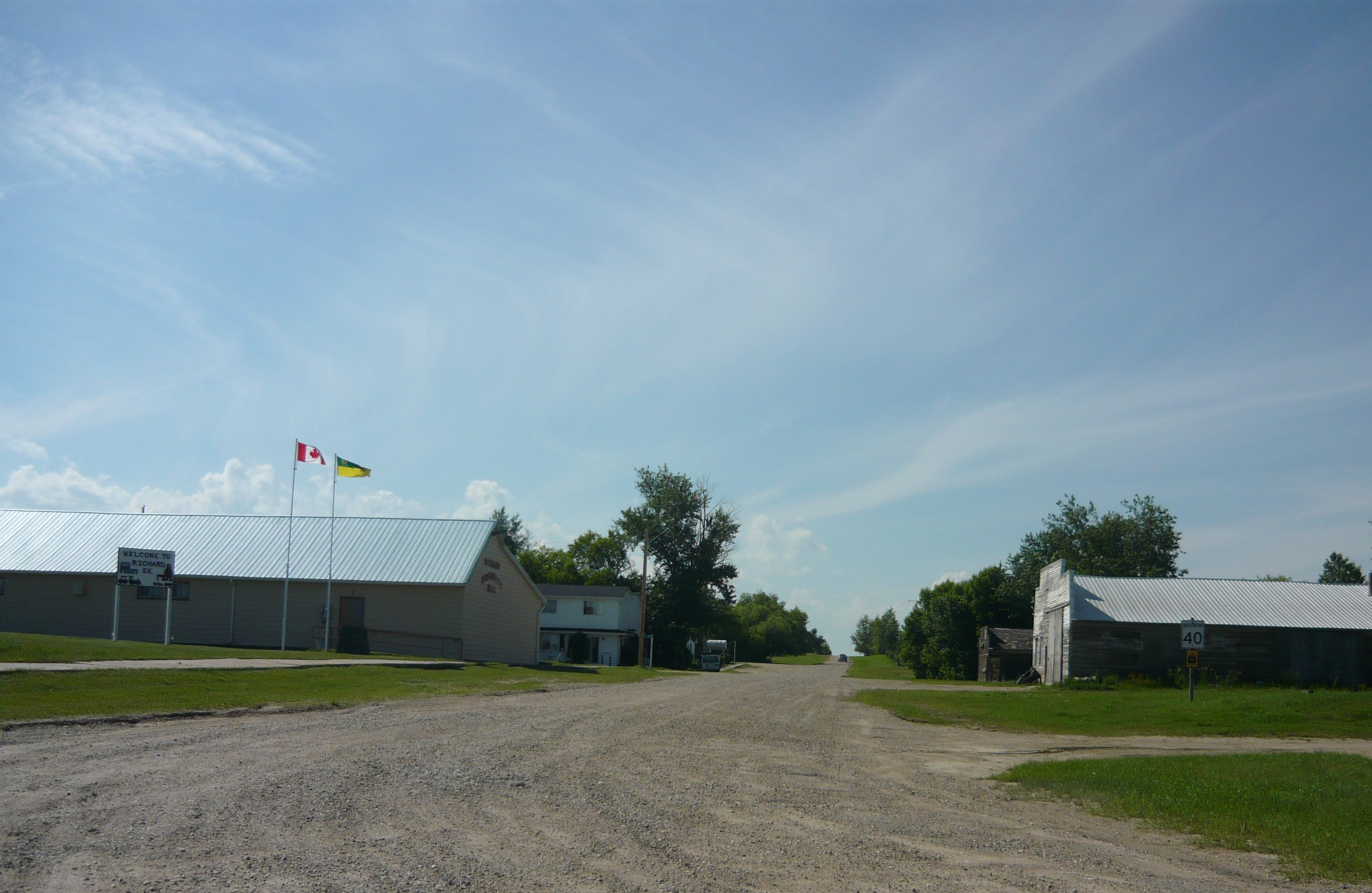 Main Street in the Village of Richard, Saskatchewan, Canada. Looking northwesterly from Saskatchewan Highway 376.